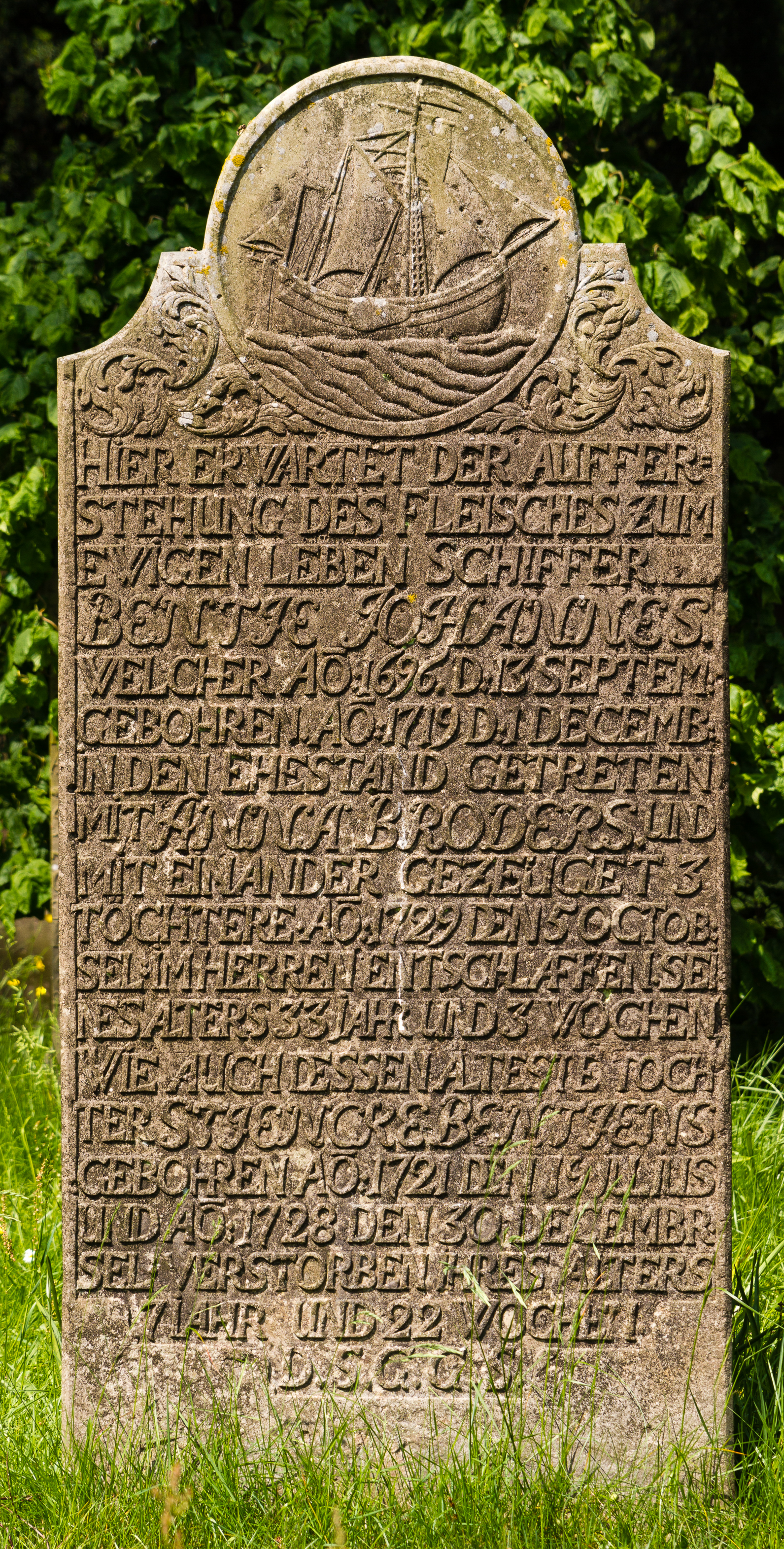 Designation: Tombs till 1870 Location: Kirchweg Place: Wyk-Boldixum, Collective municipality Föhr-Amrum, District Nordfriesland, Schleswig-Holstein, Federal Republic of Germany Construction time: before 1870 Description: Tombs in the cemetery of the church St. Nicolai in Wyk auf Föhr. Object identification: 19363